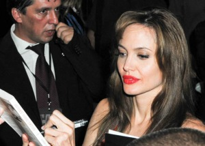 Angelina Jolie at the Moscow «Salt» premiere, July 26, 2010.